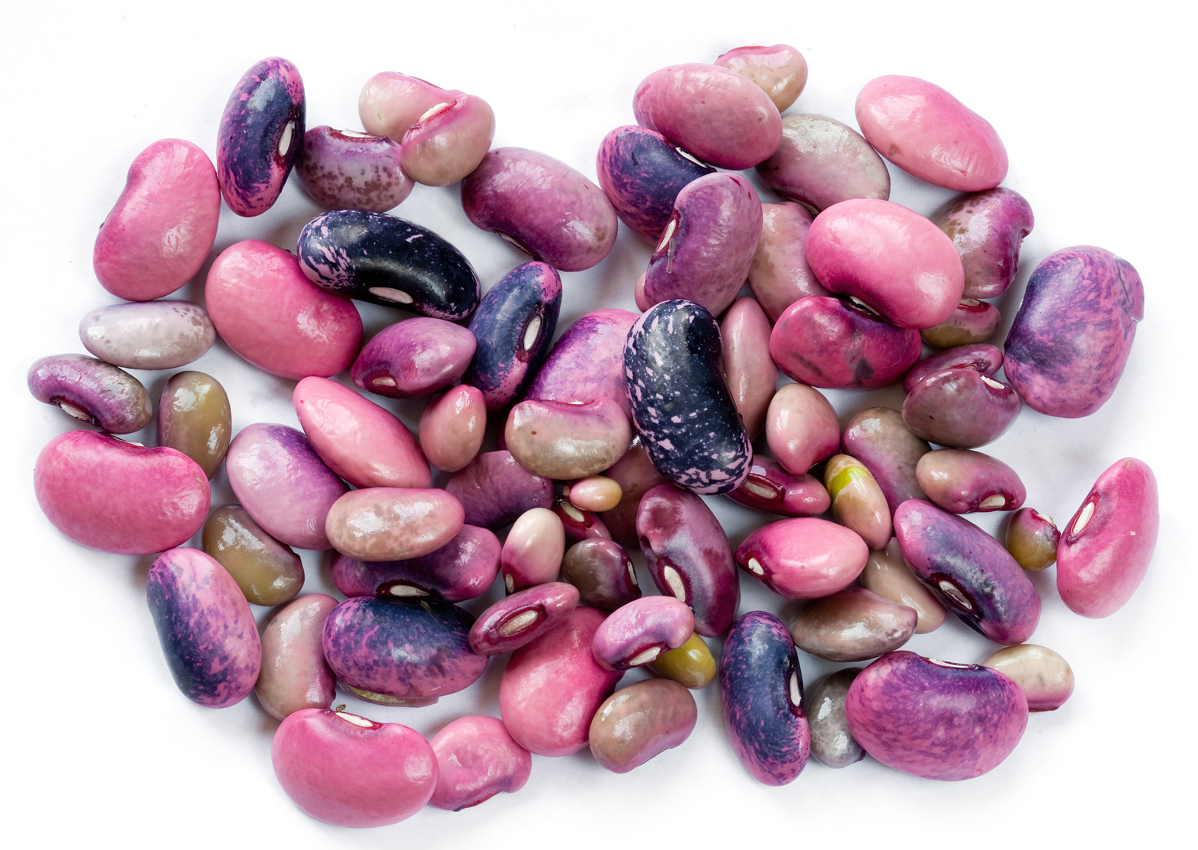 Scarlet runner bean seeds photographed by Brian Arthur Image shows bean seeds at various stages of maturity With larger darker beans being more mature. All seeds from the Scarlet Emperor variety